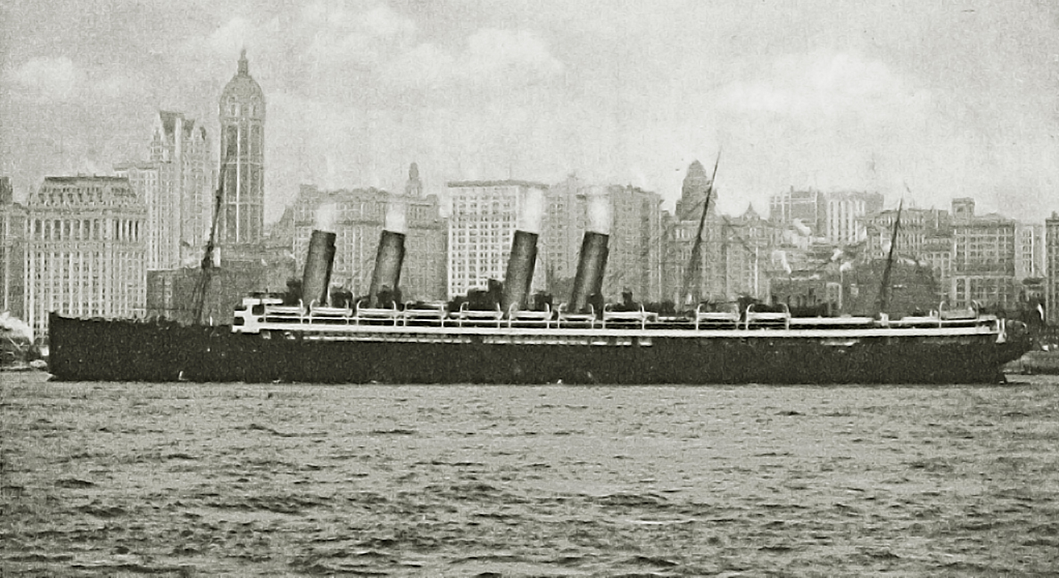 Photo of the SS Kronprinzessin Cecilie in New York